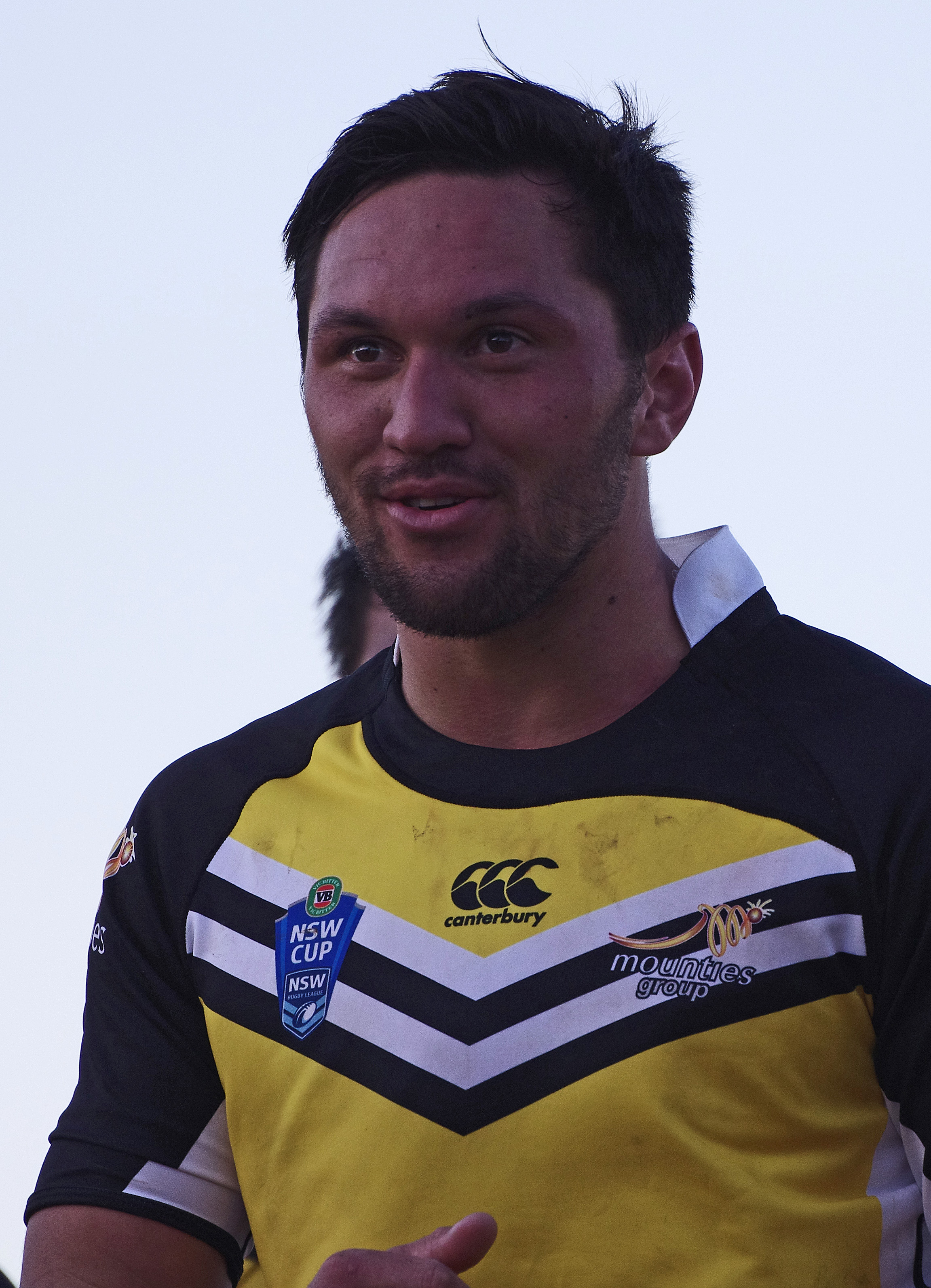 Jordan Rapana